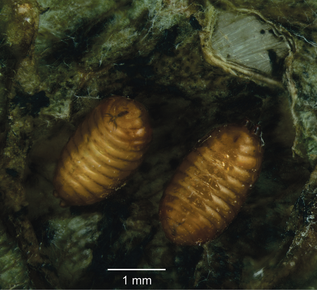 Pupae of Japanagromyza inferna Spencer in gall of the Centrosema virginianum L. (Fabaceae).